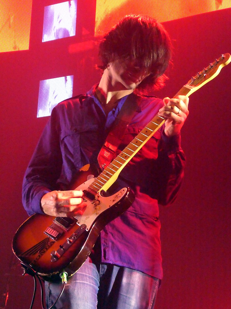 Jonny Greenwood of Radiohead taken in Amsterdam (2016)